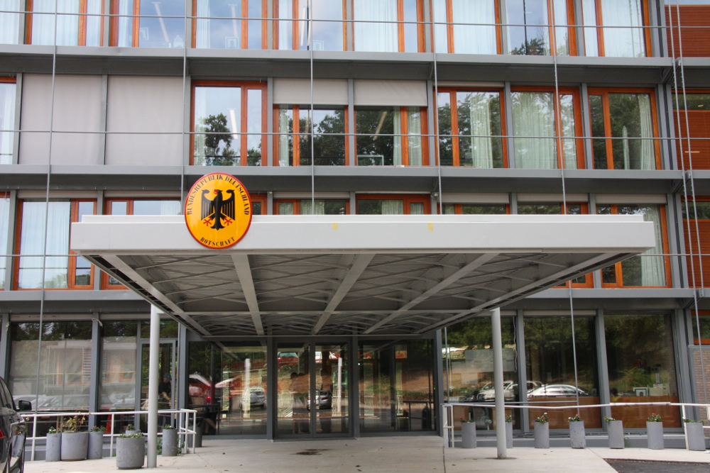 After nearly a four-year renovation, the German Embassy moved back into its chancery, a building by German architect Egon Eiermann, in July 2014.